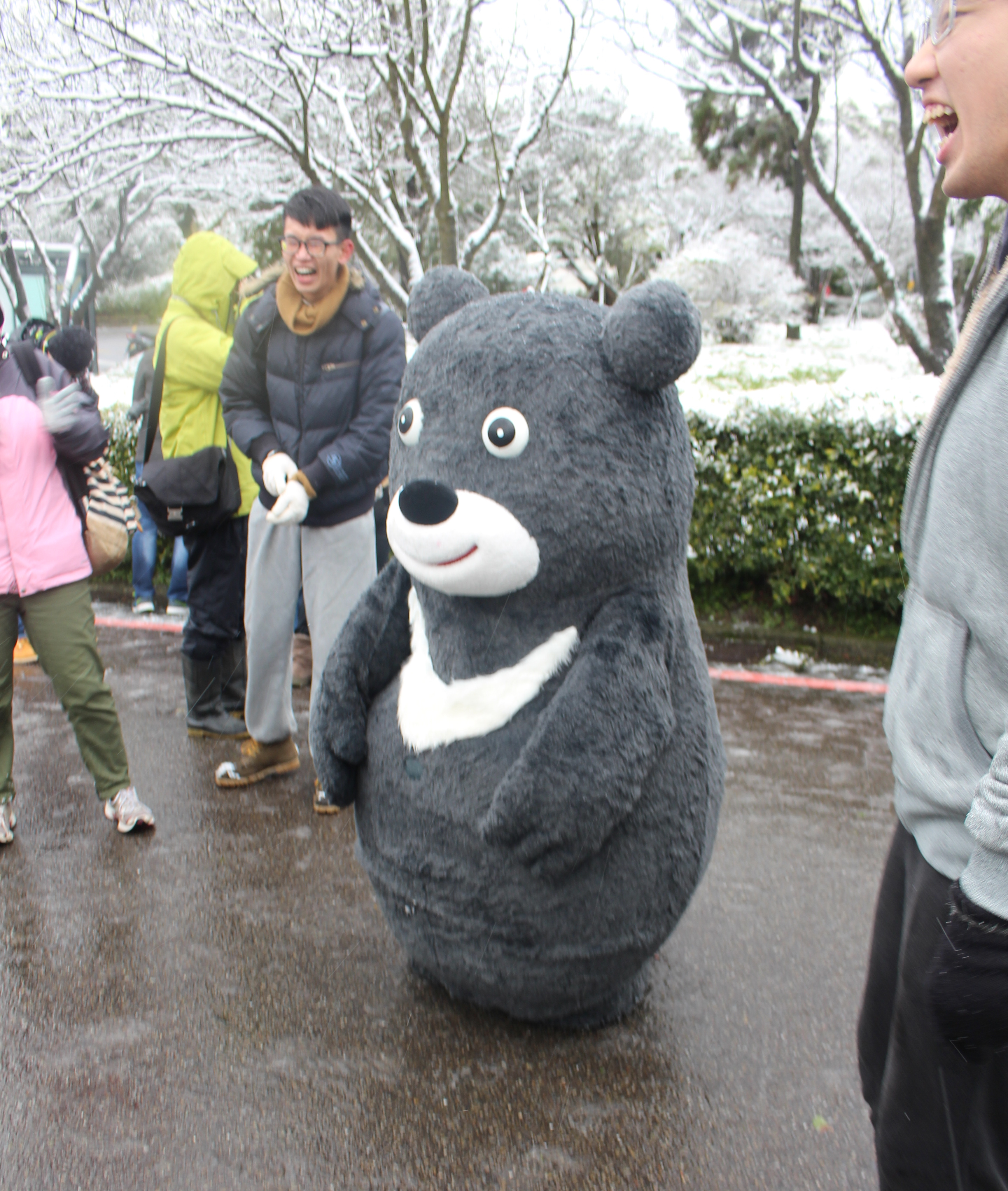 "Bravo" and visitors in Yangmingshan National Park.